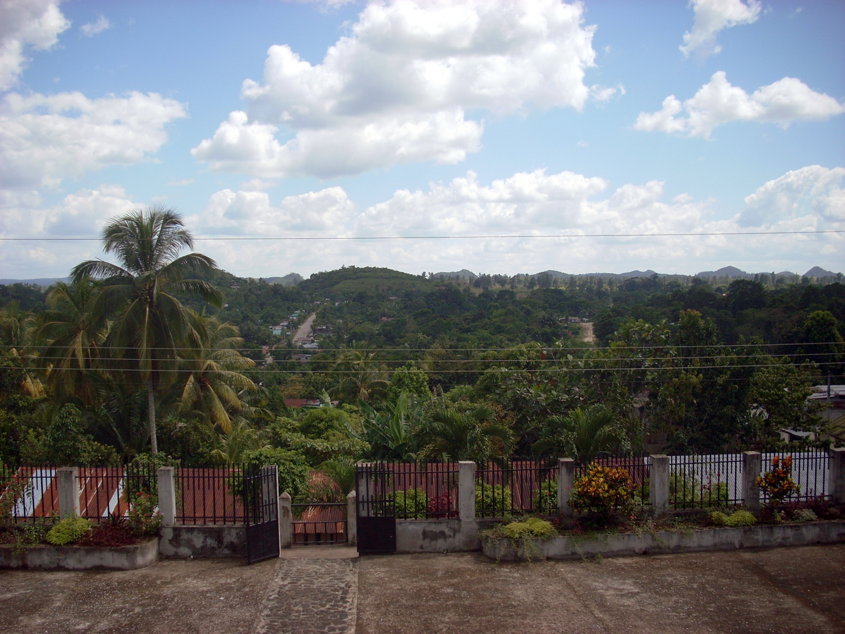 View of central Dolores from the Museo Regional del Sureste de Petén, Dolores, Peten, Guatemala.